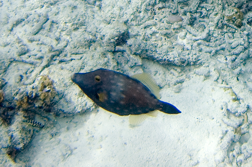 whitespotted filefish Cantherhines macrocerus